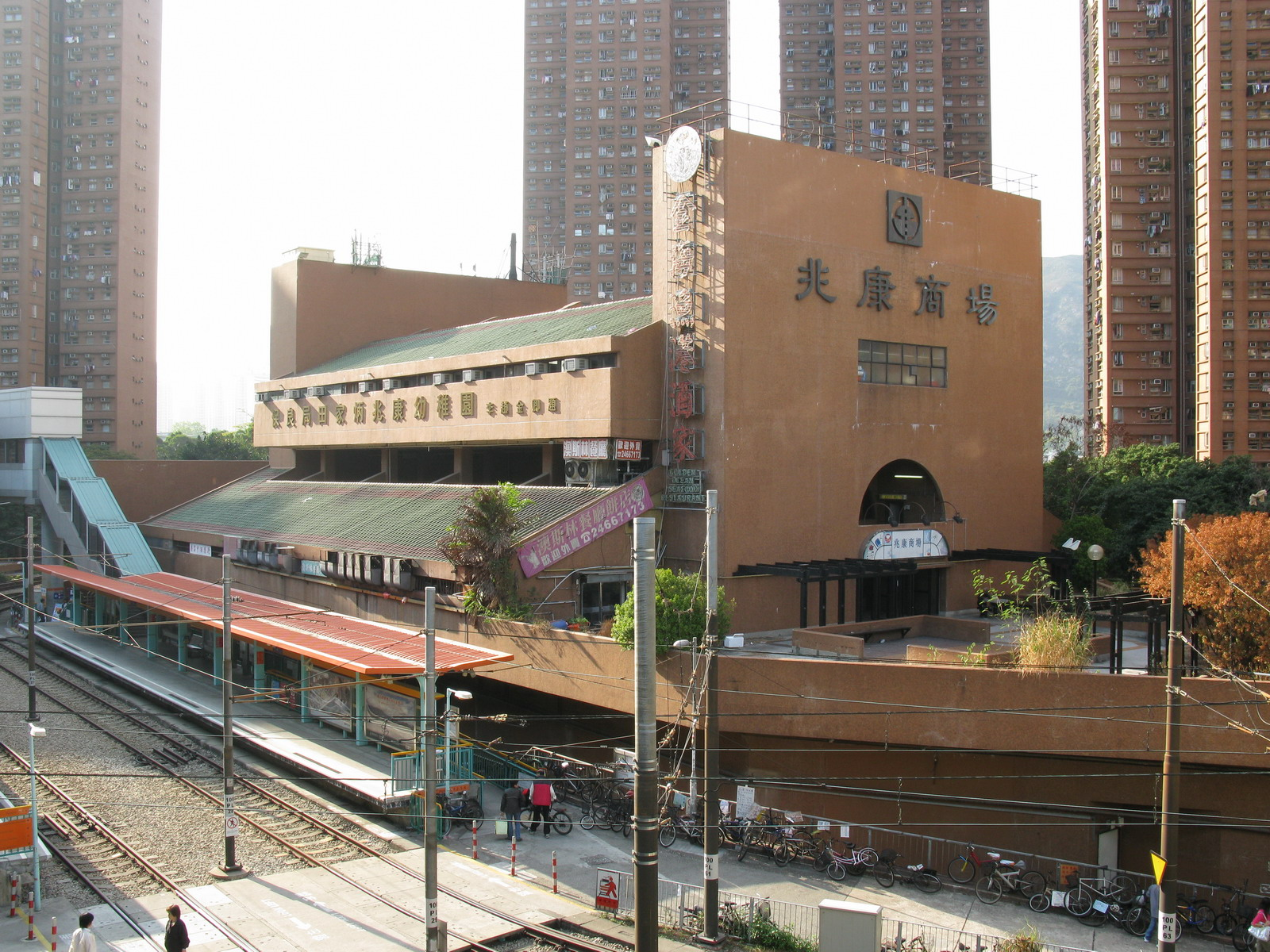 Siu Hong Commercial Complex, Siu Hong Court